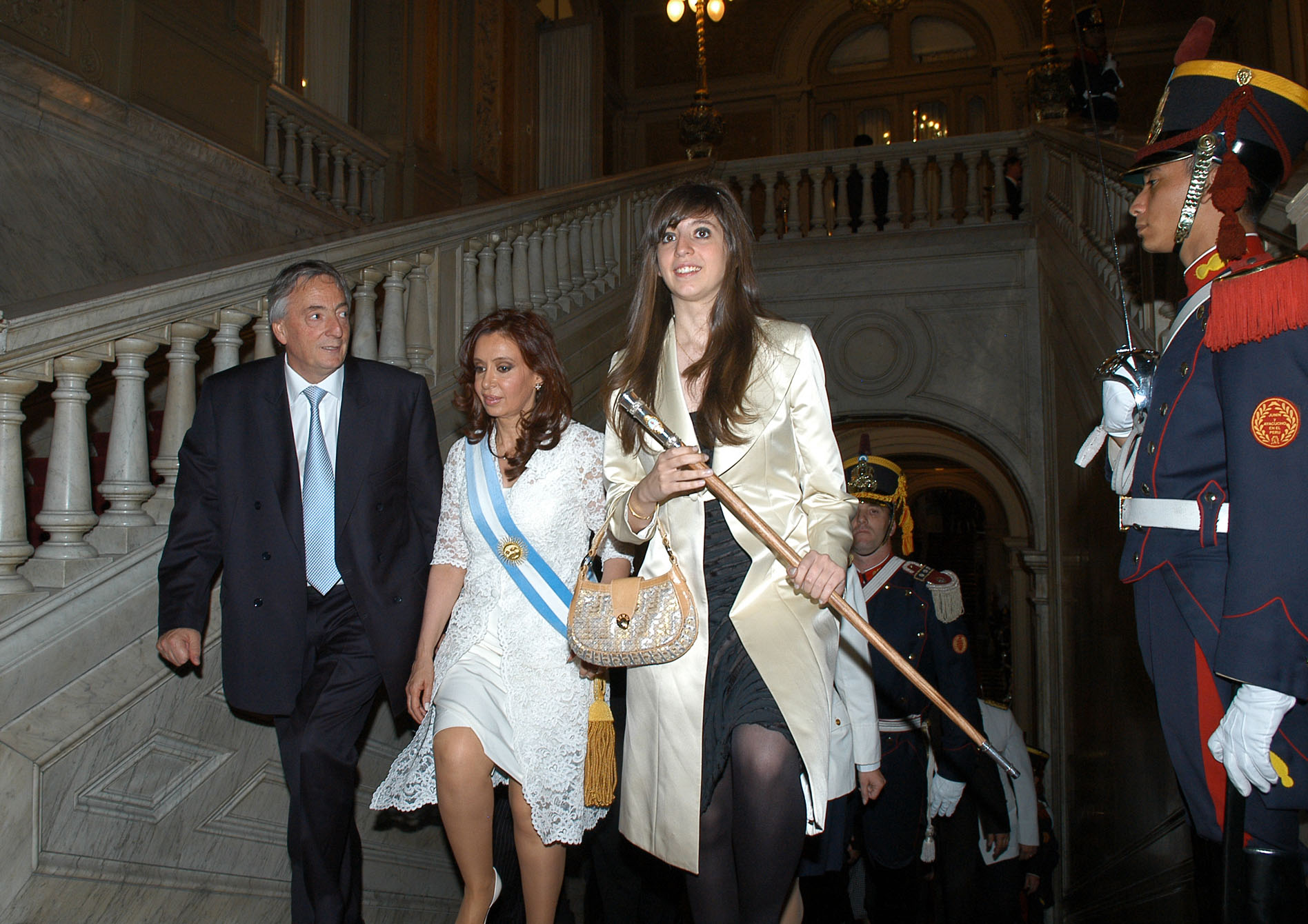 Néstor Kirchner, Cristina Fernández de Kirchner and Florencia Kirchner at the inauguration day.